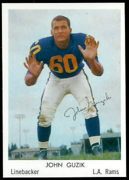 A 1959 promotional image of Los Angeles Rams player John Guzik.